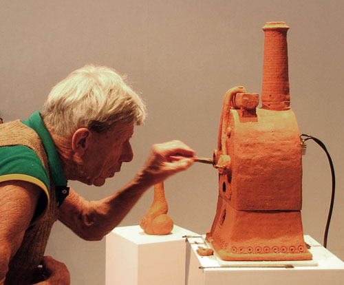 New Zealand ceramicist Barry Brickell stoking a working miniature clay kiln